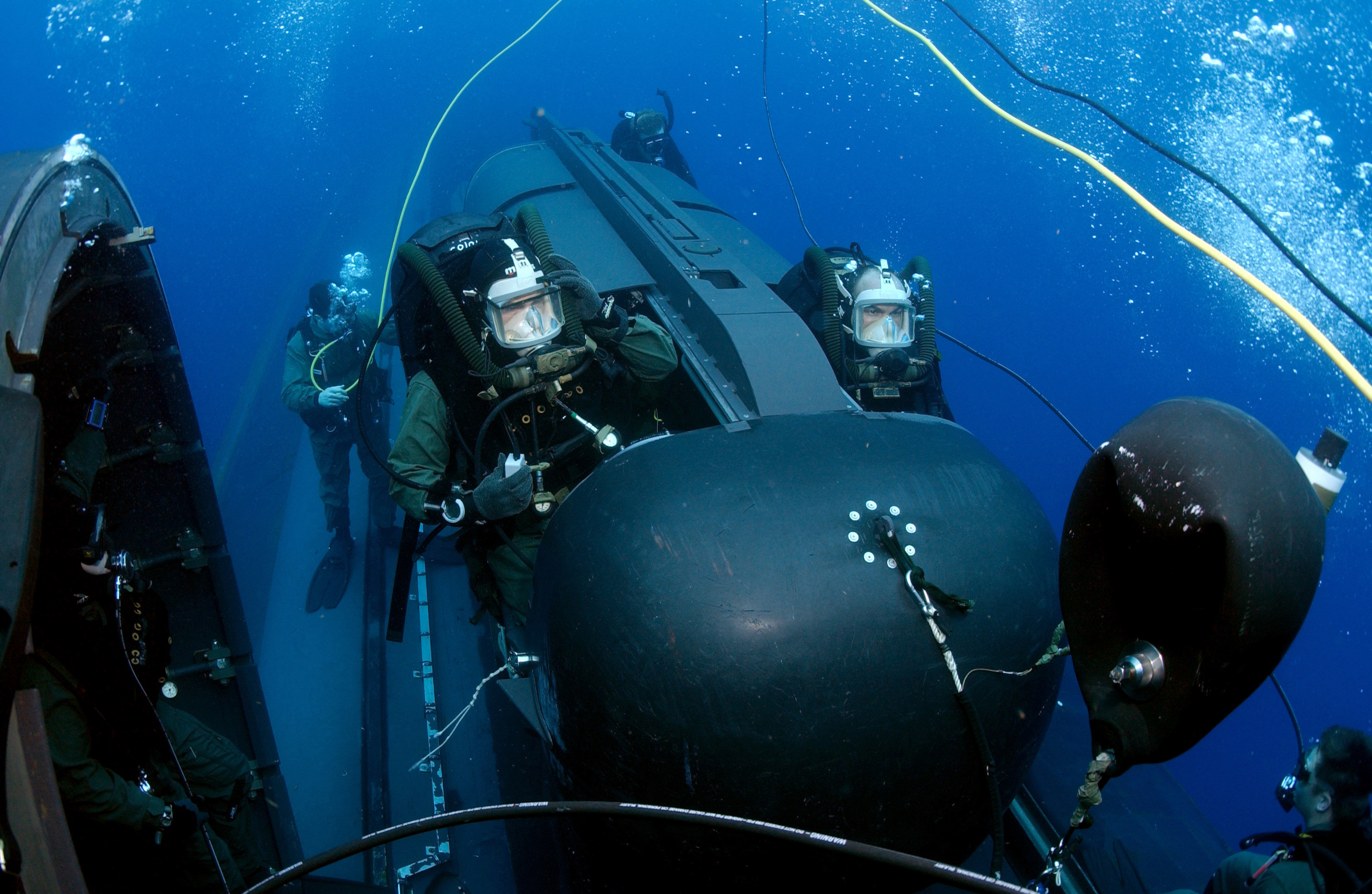 Atlantic Ocean (May 5, 2005) - Members of SEAL Delivery Vehicle Team Two (SDVT-2) prepare to launch one of the team's SEAL Delivery Vehicles (SDV) from the back of the Los Angeles-class attack submarine USS Philadelphia (SSN 690) on a training exercise. The SDVs are used to carry Navy SEALs from a submerged submarine to enemy targets while staying underwater and undetected. SDVT-2 is stationed at Naval Amphibious Base Little Creek, Va., and conducts operations throughout the Atlantic, Southern, and European command areas of responsibility. U.S. Navy photo by Chief Photographer's Mate Andrew McKaskle (RELEASED)